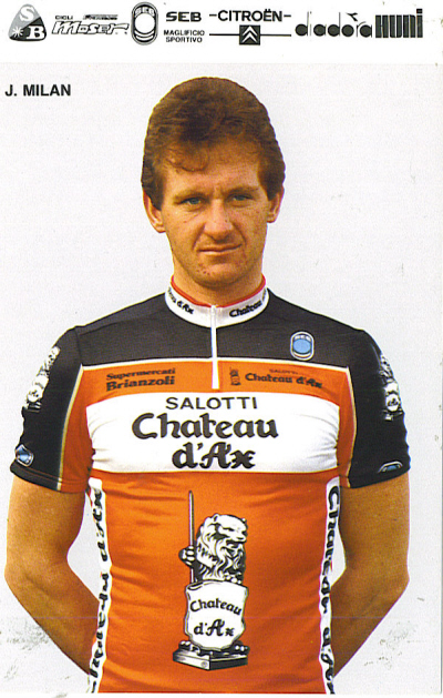 Milan Jurco - Château d'Ax - Salotti 1988